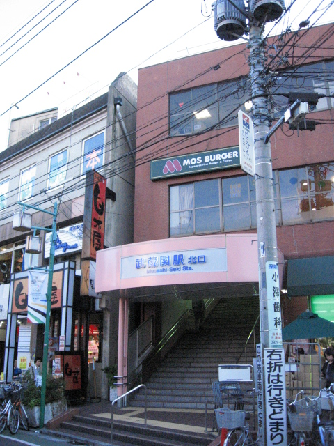 Musashiseki stations south gate from Seibu railway Shinjuku line